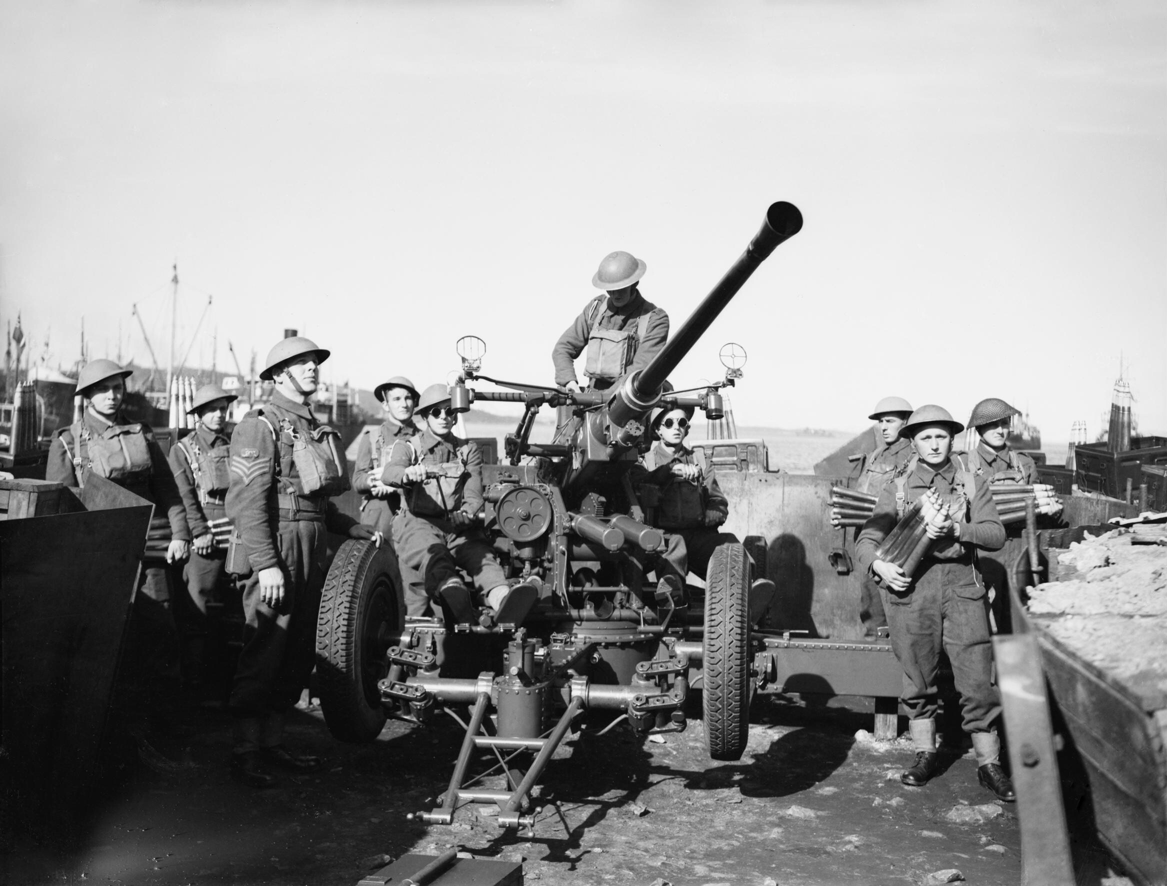 The British Army in Norway April - June 1940 40mm Bofors gun and crew at Harstad, 14 May 1940.